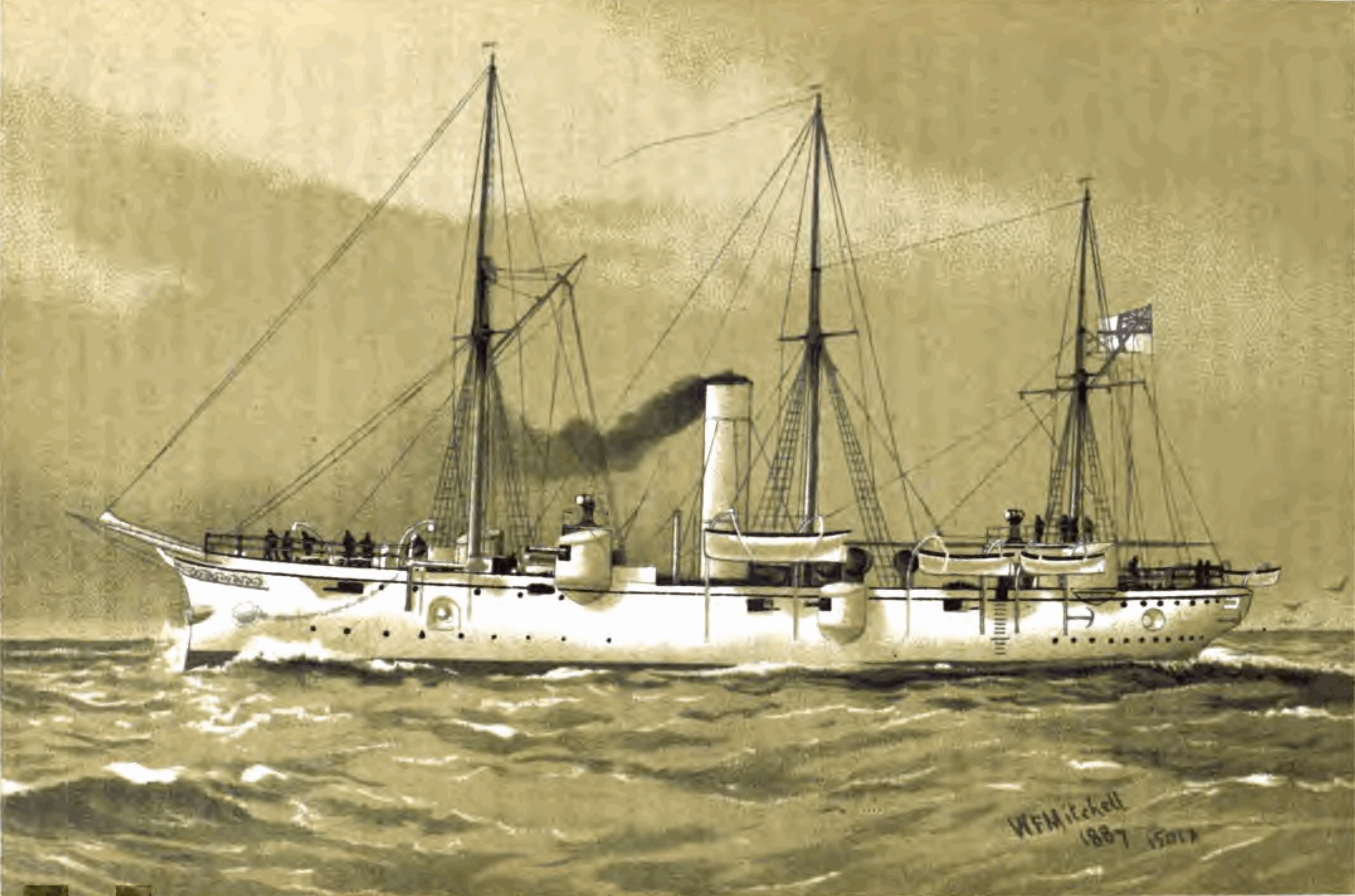 The Naval Annual of 1887 contained eight lithographs based on illustrations by William Frederick Mitchell. This one, showing the torpedo cruiser Archer, was featured opposite page 114.